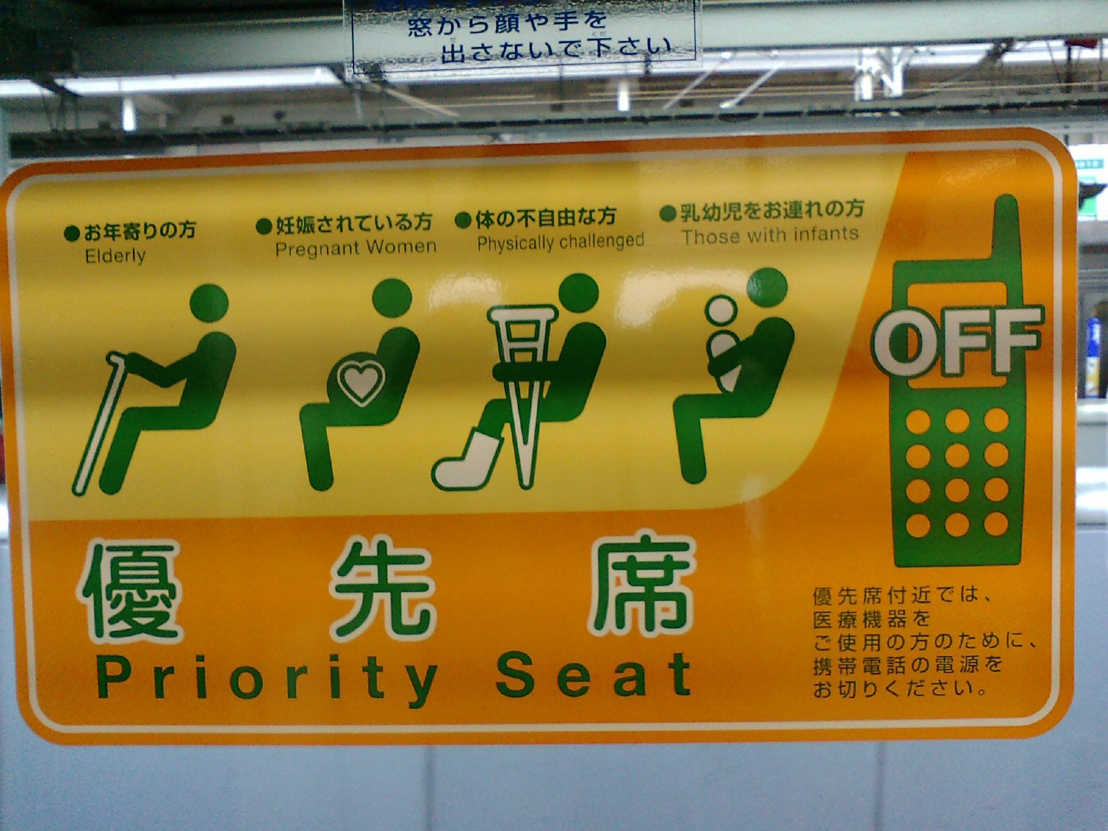 "Sticker seal" put on train window, "Priority_Seat" sign in the keio line train (Japan).jpg